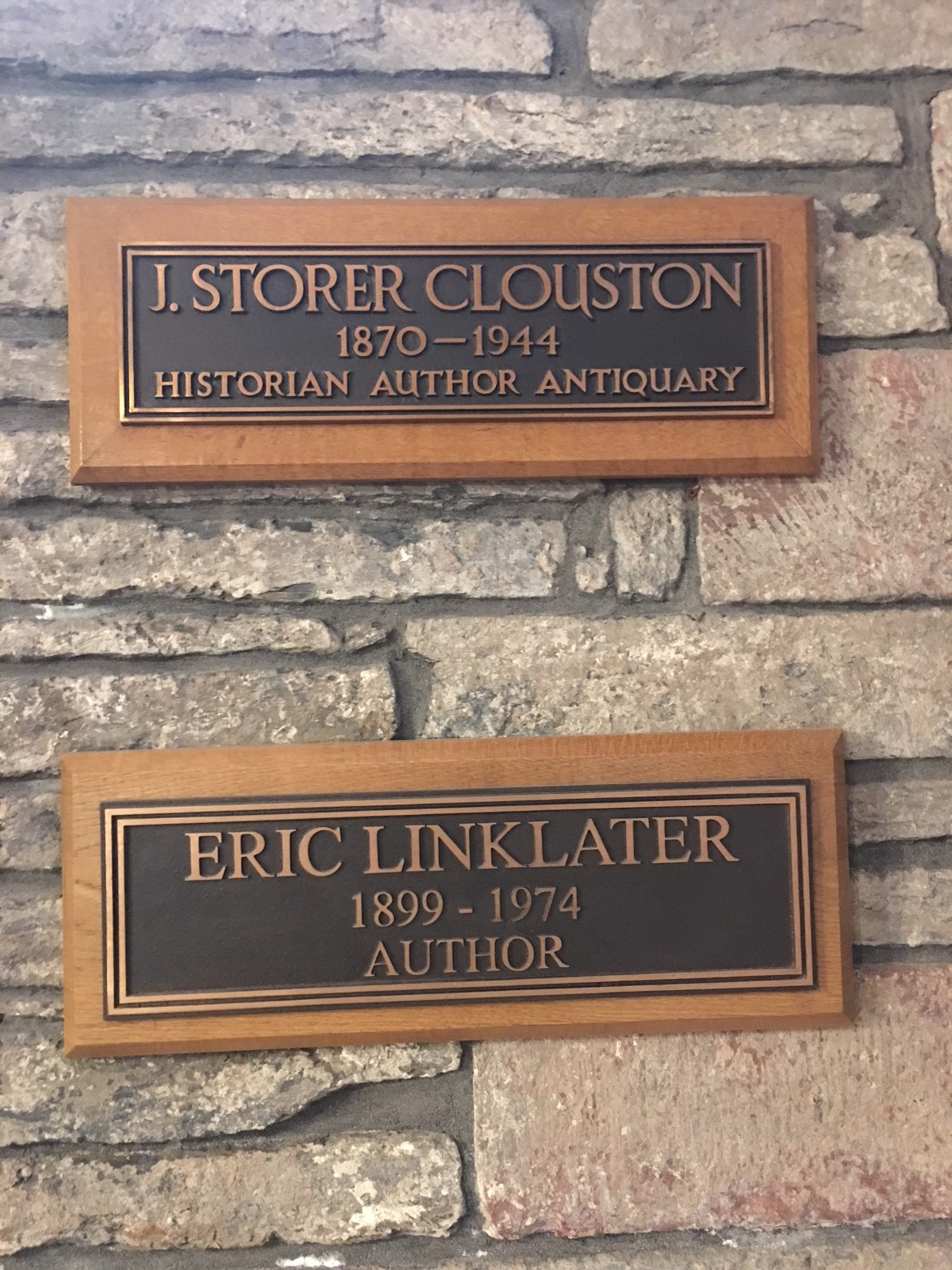 Memorial to J. Storer Clouston and Eric Linklater in Kirkwall Cathedral, Orkney